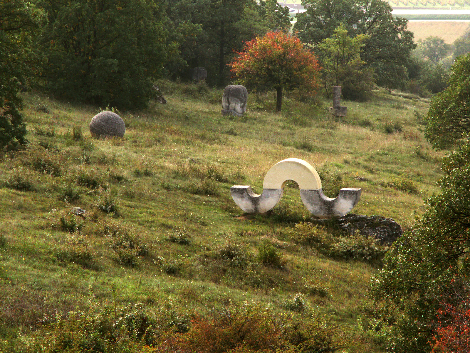 „Symposion Europäischer Bildhauer“, St.Margarethen – Burgenland/Austria, im Vordergrund: Anna Maria Kupper,Welle 1971, dahinter: Heinz Pistol, Alois Mandl, Peter Meister